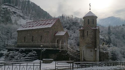 ზვარის ეკლესია